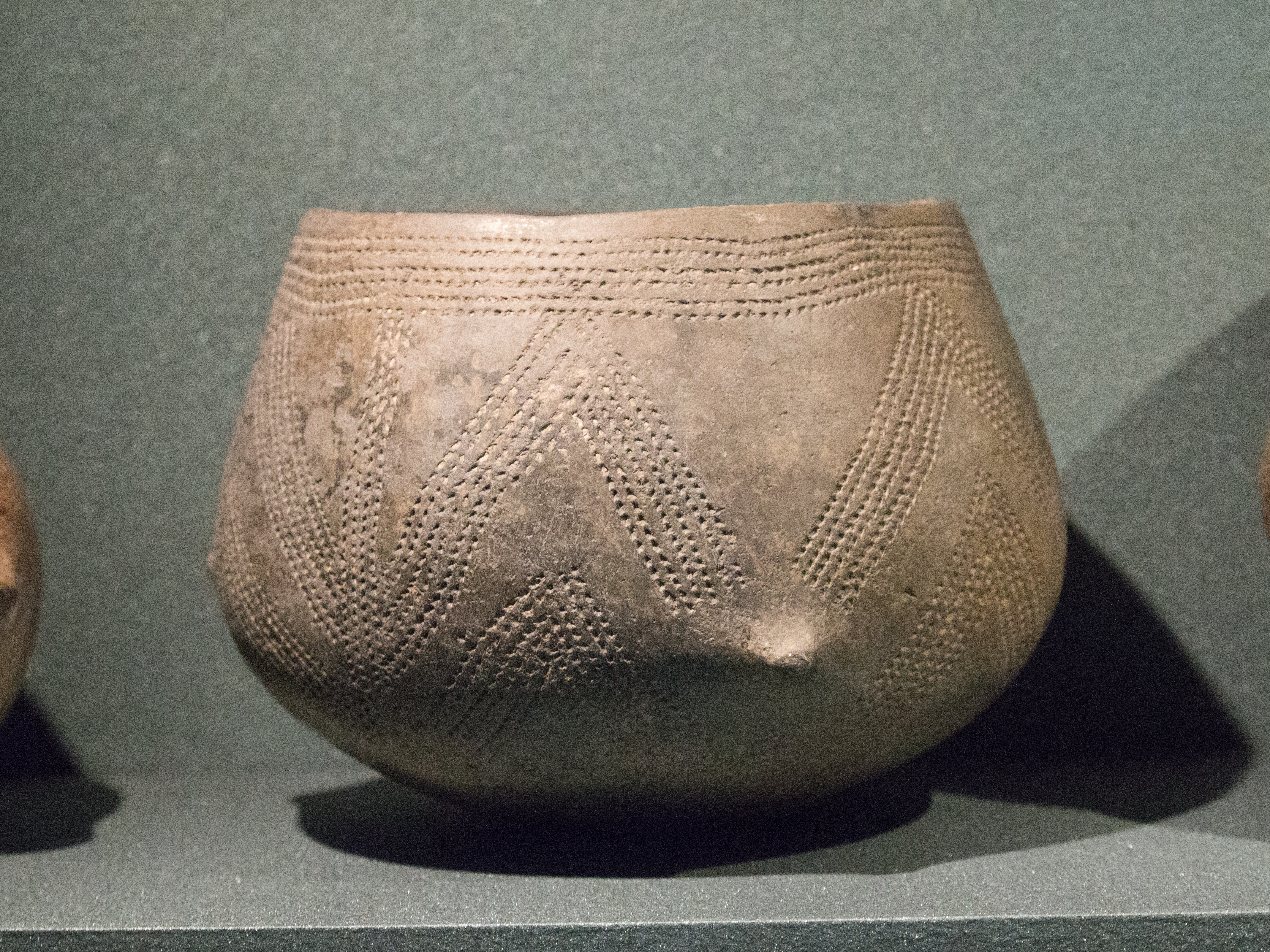 Neolithic vessel of the Neolithic Stroke-ornamented Ware, height 130 mm, 5th millennium BC, from Praha Bubeneč. The City of Prague Museum, inv. no. PJ0000062.